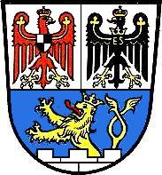 Coat of arms of Erlangen